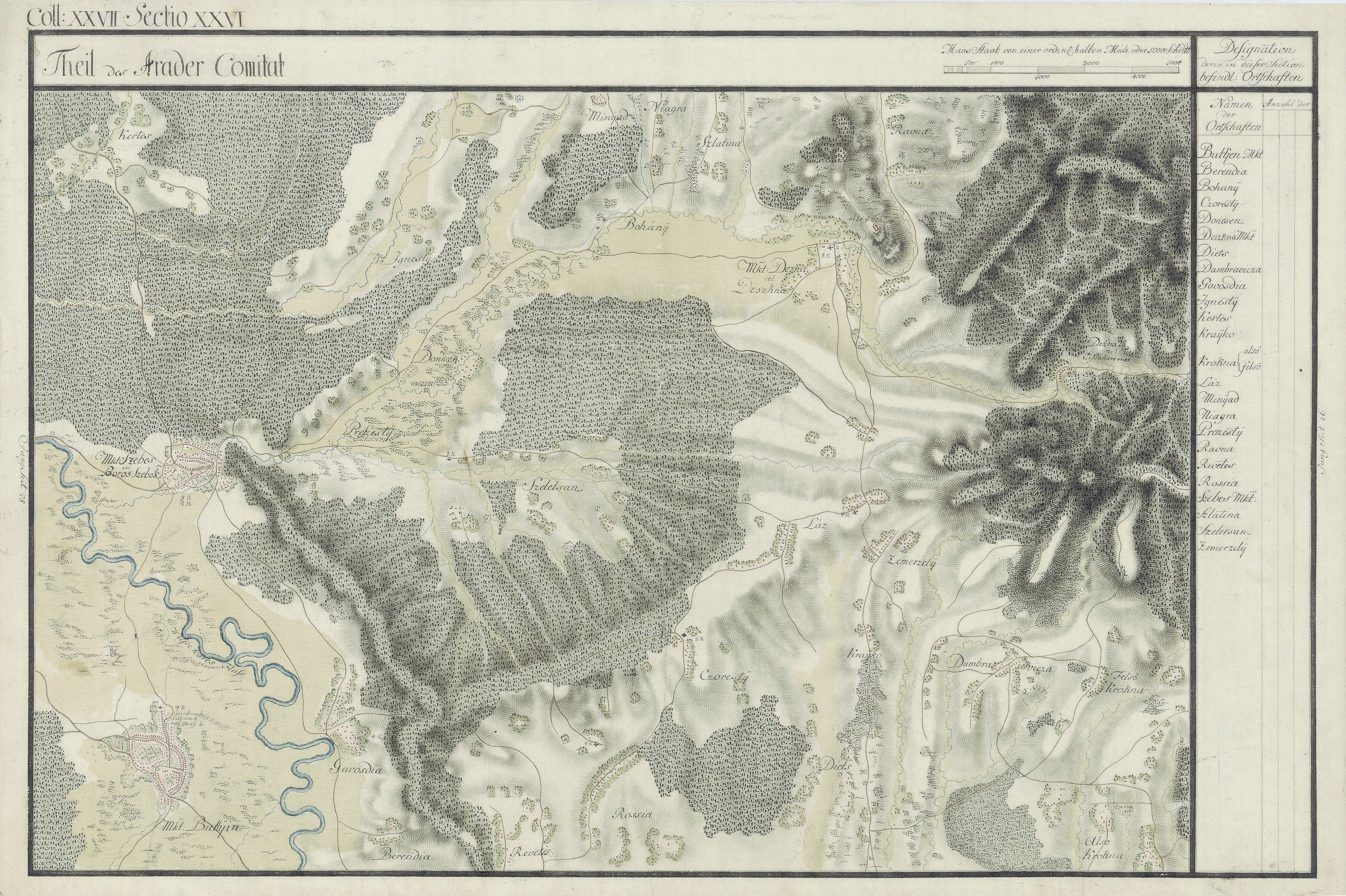 Arad County, 1782-85. Josephinische Landesaufnahme pg.27-26